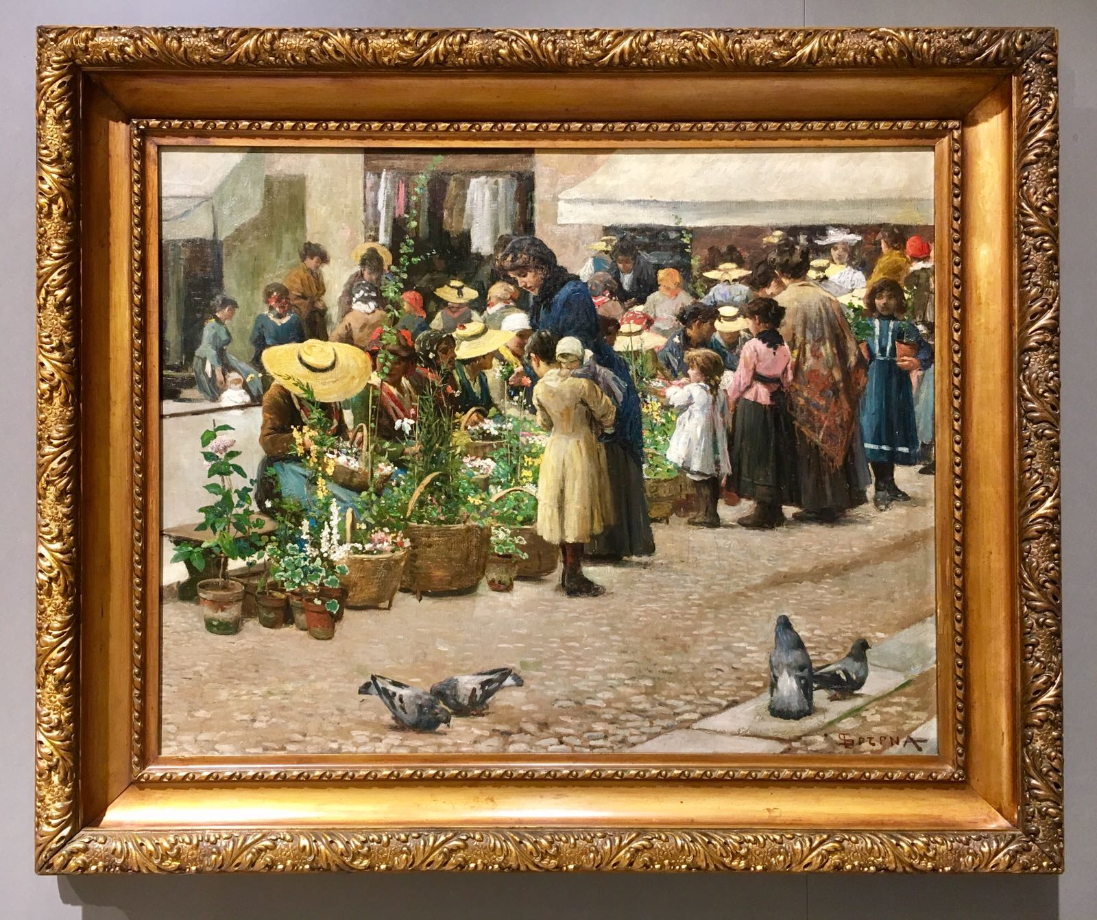 A painting by Luigi Serena in the Museum "Luigi Bailo" in Treviso (Italy)